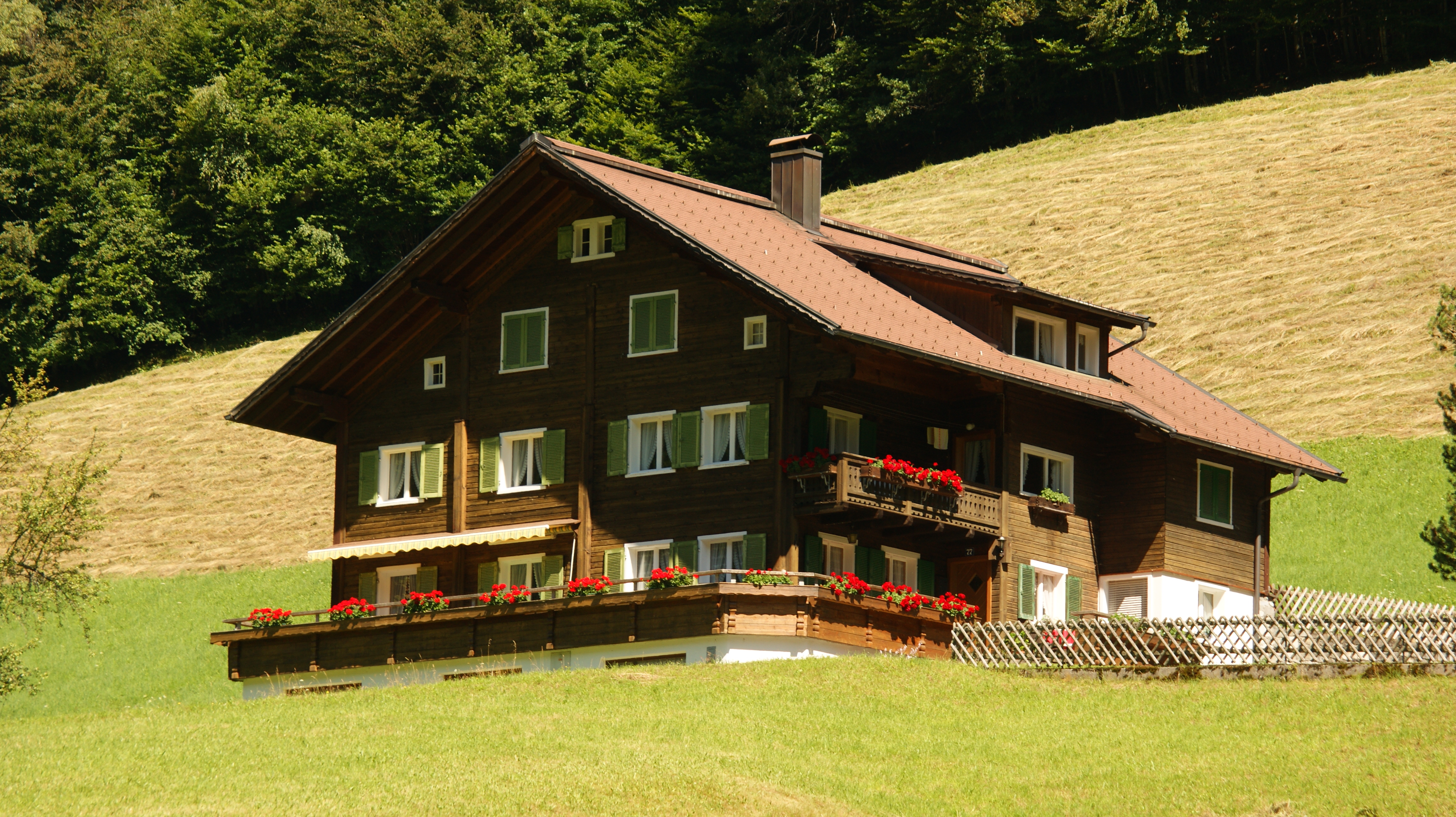 The spa Silbertal (900 masl) was lying in the valley Silbertal in Vorarlberg, Austria in the hamlet Außertal. Today the building is a residential building.